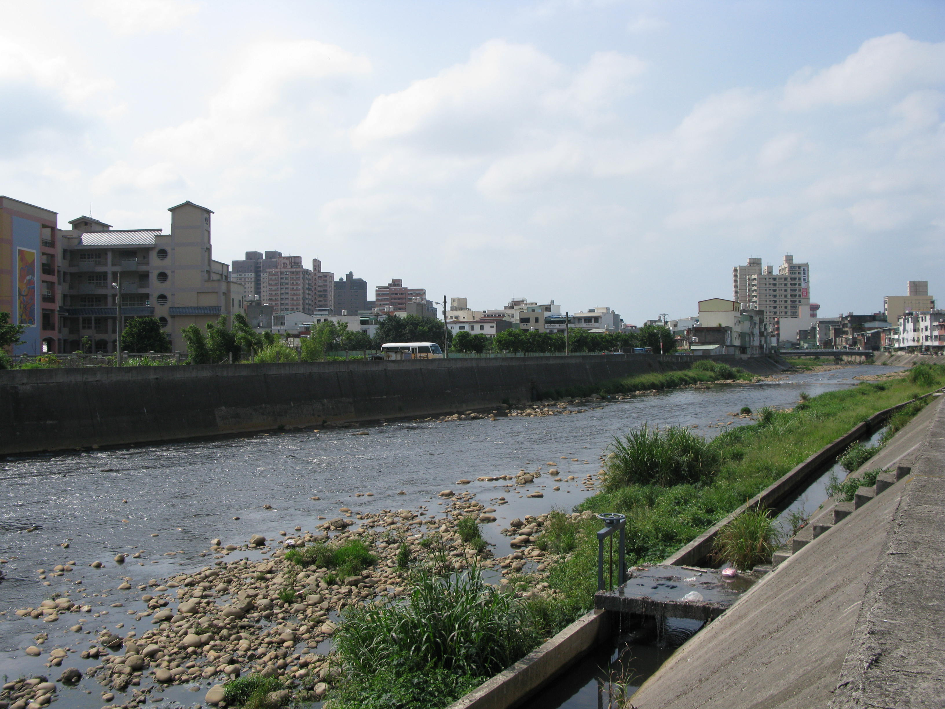 Taoyuan City - Nankan stream ,Taiwan